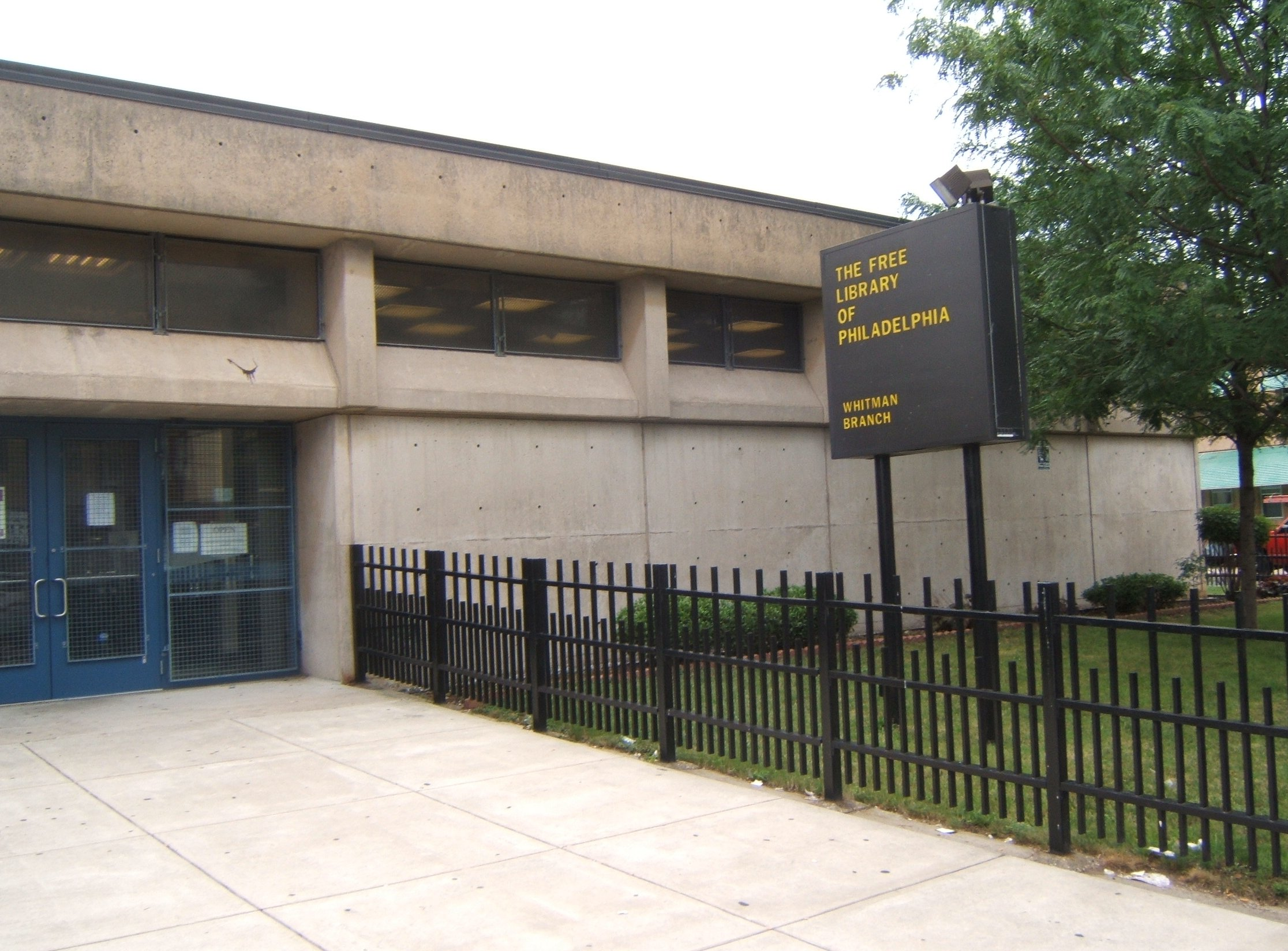 Free Library of Philadelphia - Whitman Branch 200 Snyder Avenue Philadelphia PA 19148 Opened January 24, 1977.